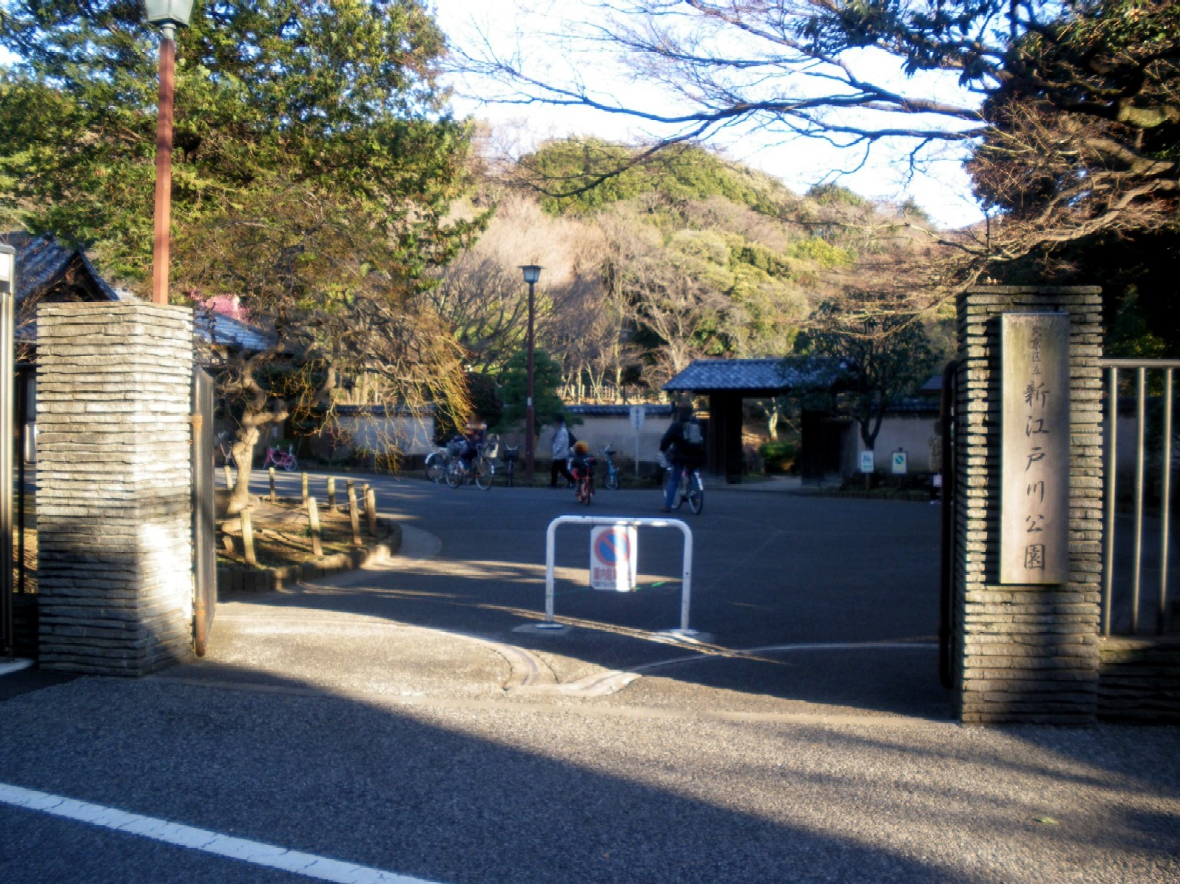 A photo of the entrance of Shinedogawa park,Mejirodai,Bunkyo-ku,Tokyo,Japan.